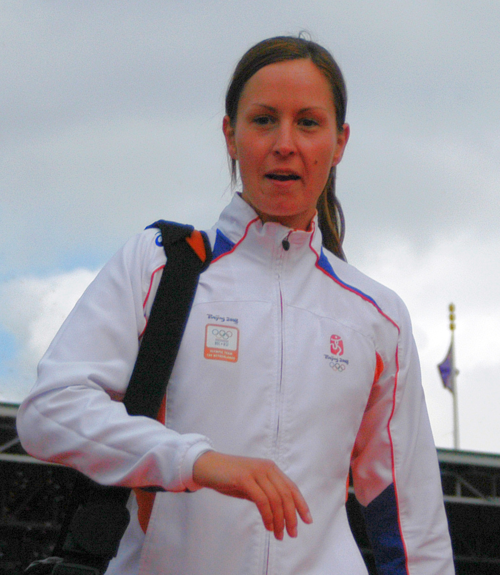 Ariane Herde at the Olympic welcome in the Olympic Stadium in Amsterdam, the Netherlands